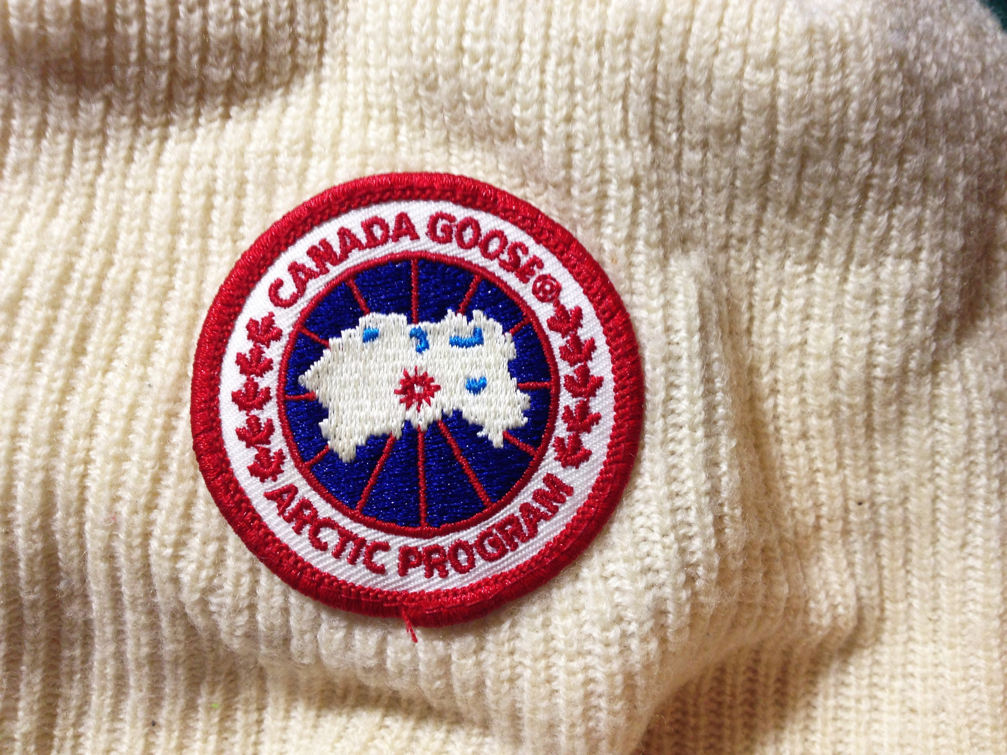 Canada Goose logo label